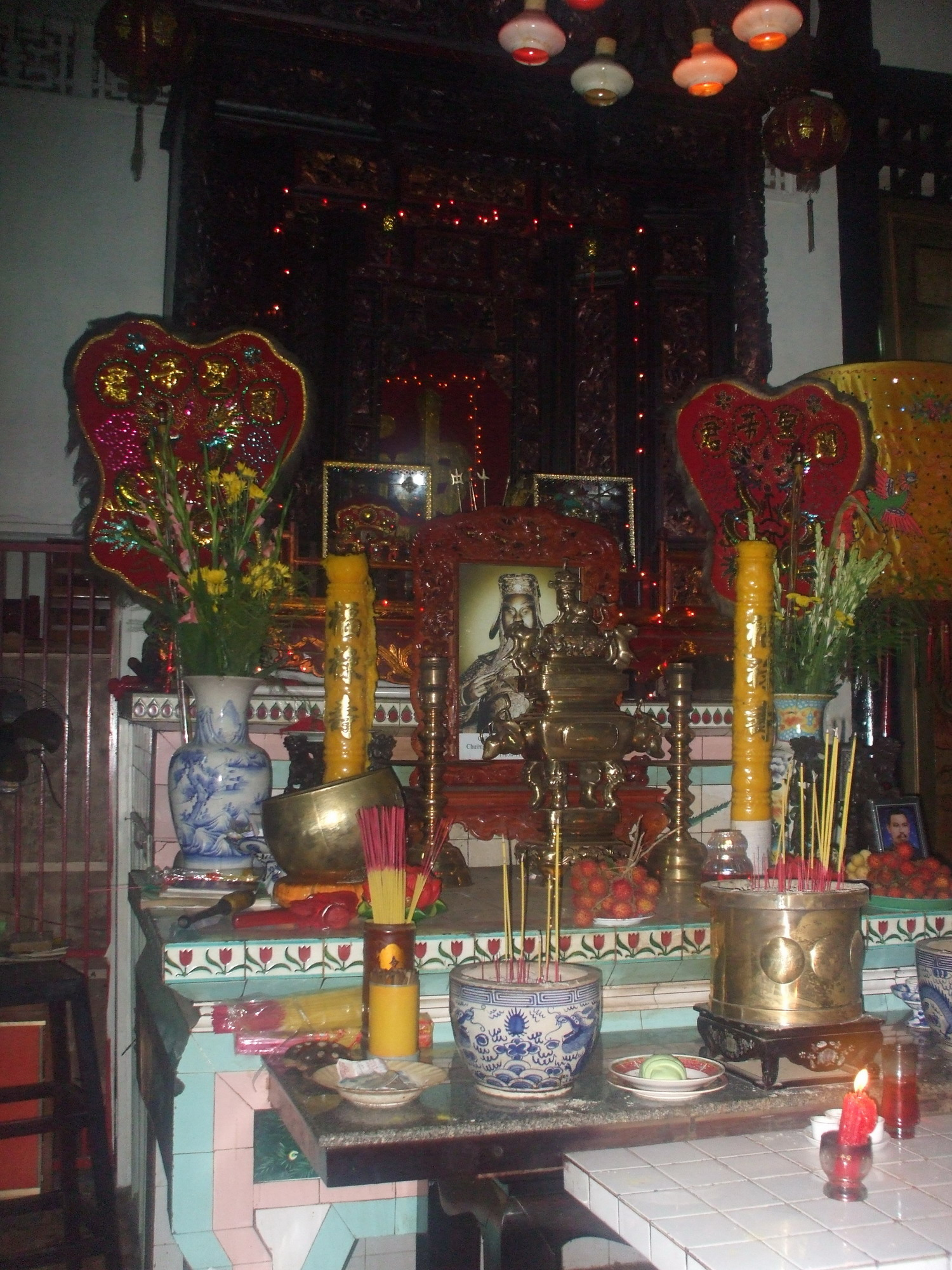 Bàn thờ Thành hoàng làng ở Đình Mỹ Phước, TP. Long Xuyên, An Gaing, Việt Nam.